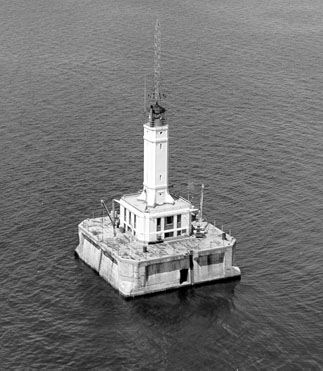 Gray's Reef Light Station, Bliss Twp, Emmet County MI